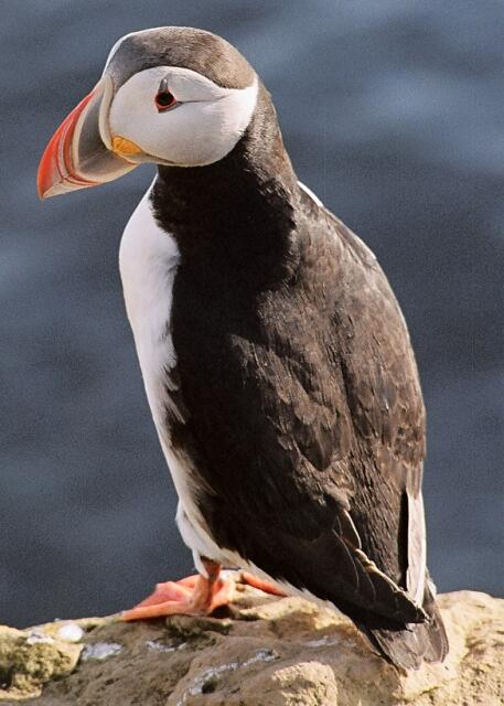 Pictures taked at the beginning of July 2004 on Látrabjarg, in Iceland.